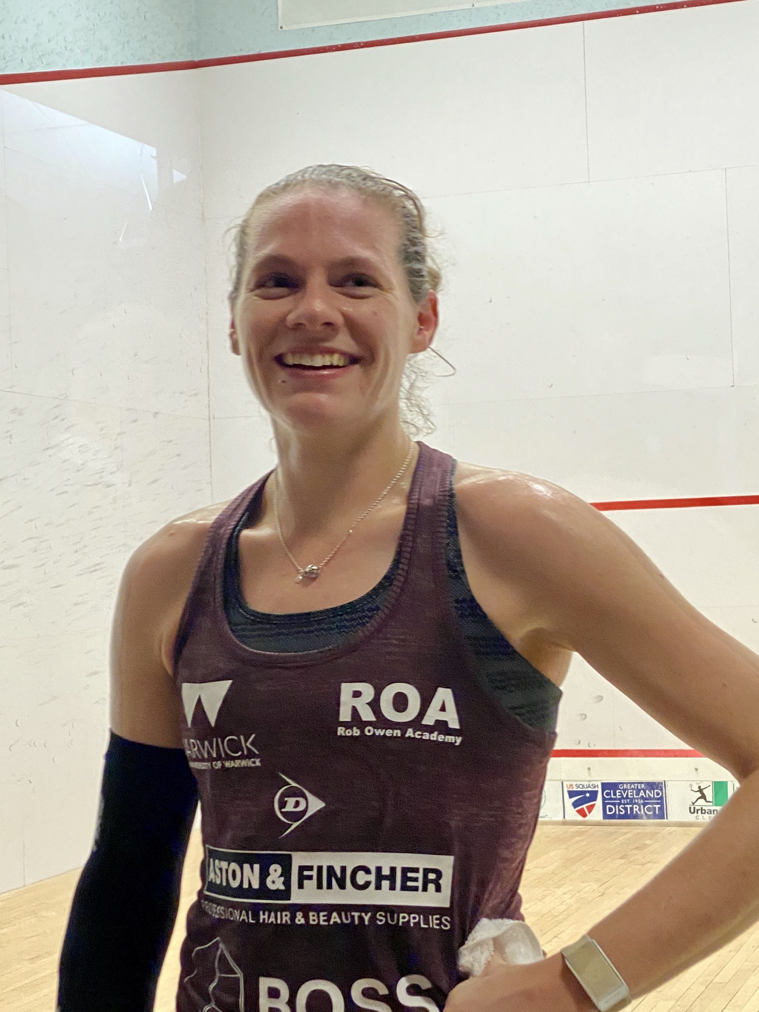 Sarah-Jane during post-match interview after victory over Joelle King in semi-final round of Cleveland Classic 2020.